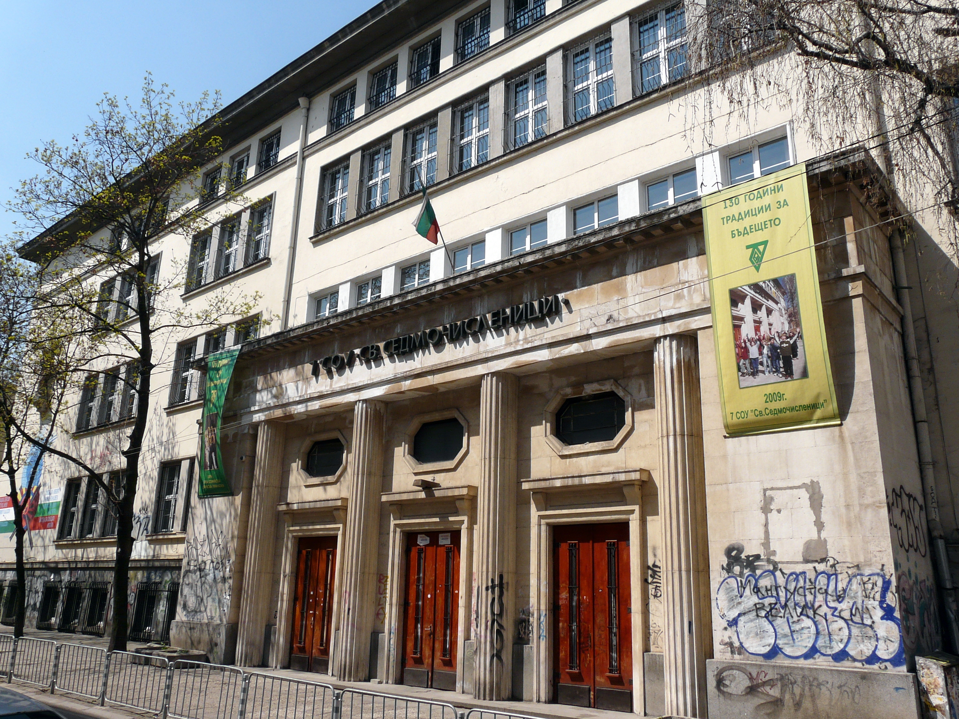 7th High School - Sofia